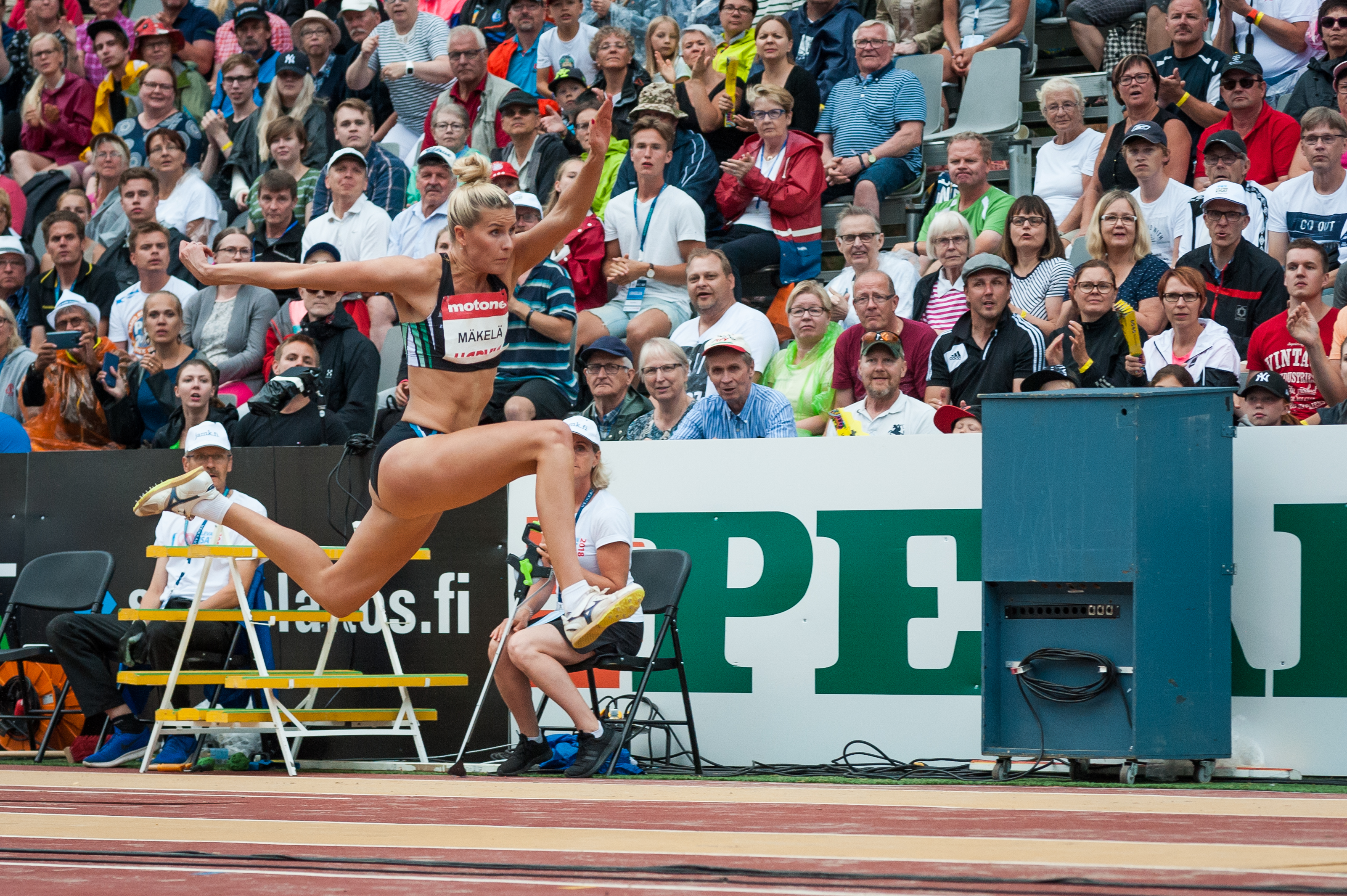 Women's triple jump competition at the 2018 Kalevan Kisat, the Finnish championships in athletics, in Jyväskylä, Finland.